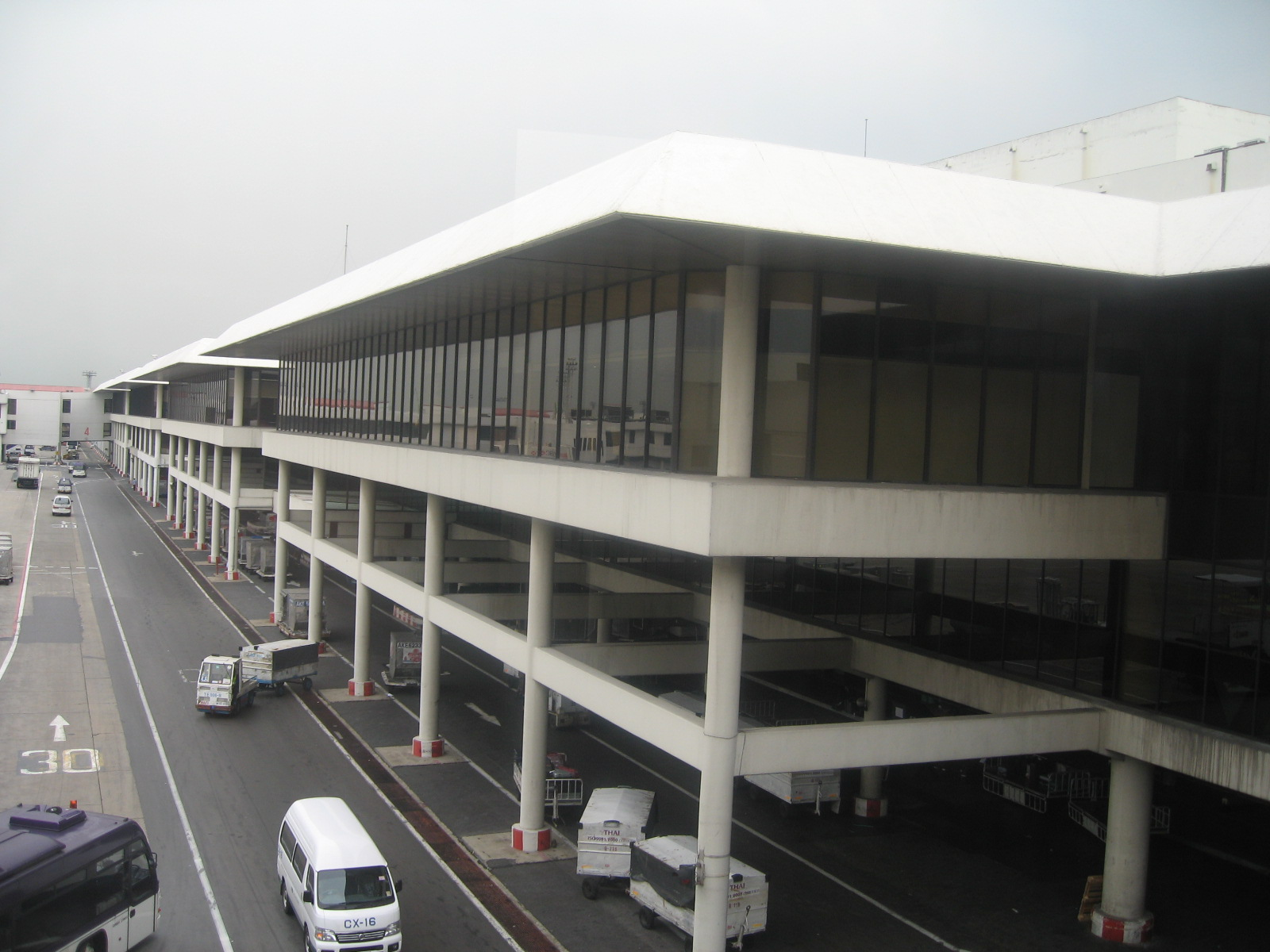 Bangkok (Don Mueang) International Airport, Terminal 2.